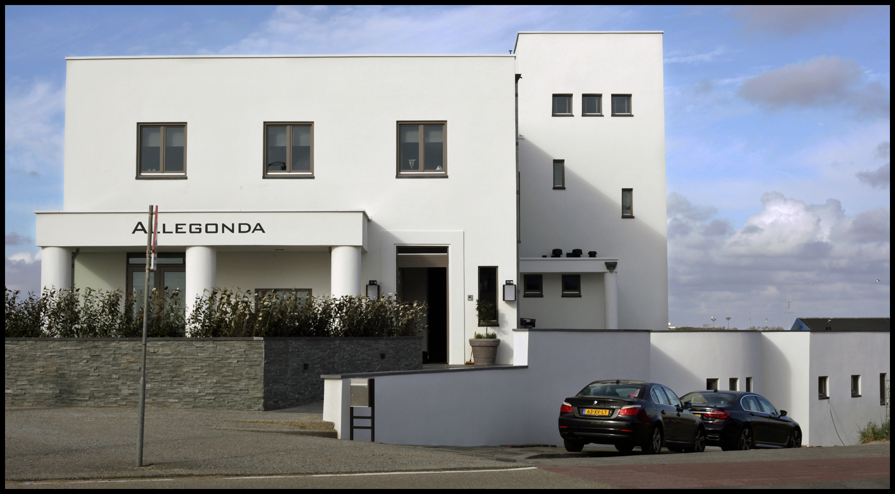 Katwijk, Netherlands - Villa Allegonda - Date: April 16, 2017.